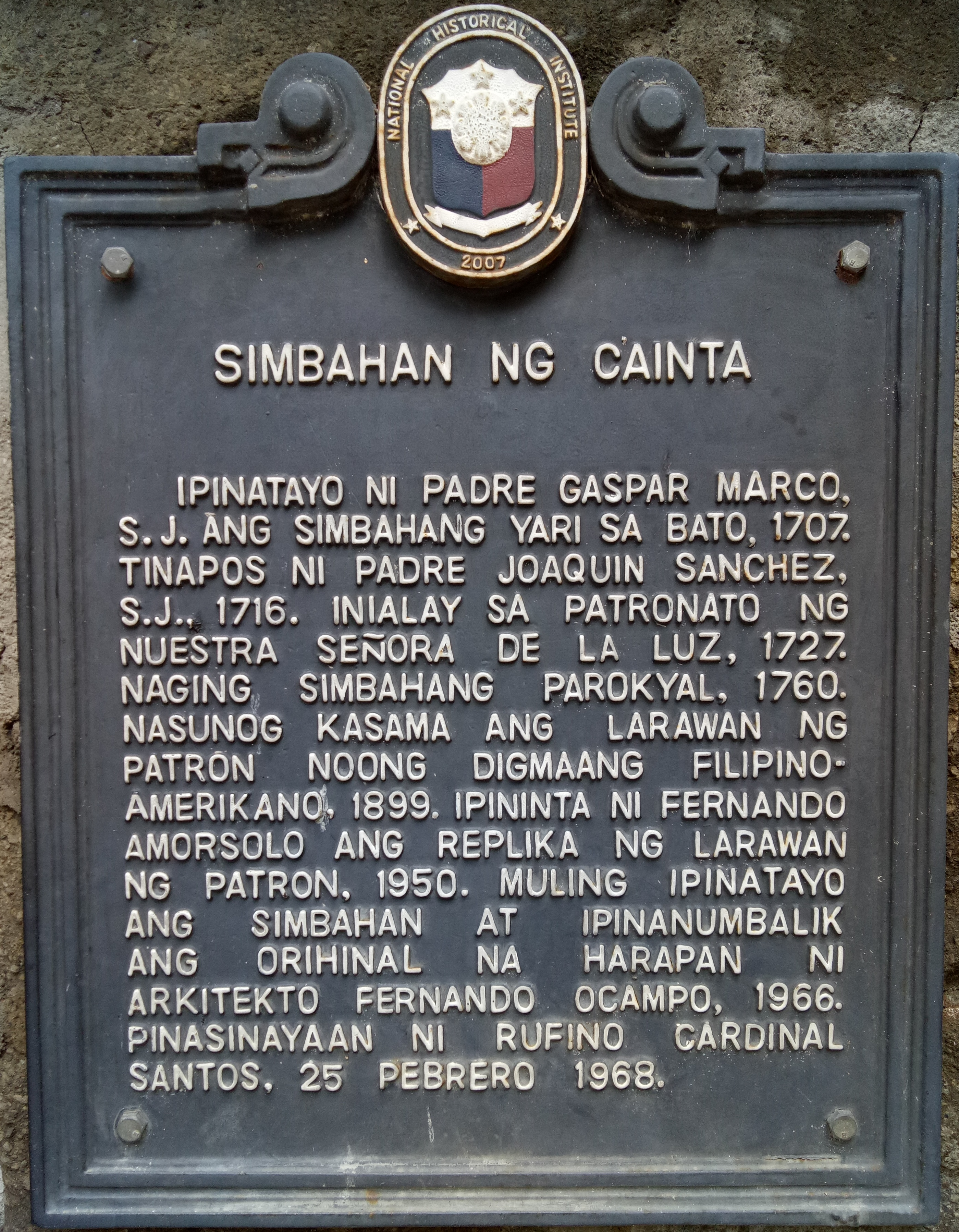 National Historical Insitute marker of Cainta Church in the Philippines Tagalog: Pananda ng Pambansang Suriang Pangkasaysayan ng Simbahan ng Cainta sa Pilipinas